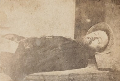 Photograph of bushranger Fred Lowry after being fatally shot by a policeman.